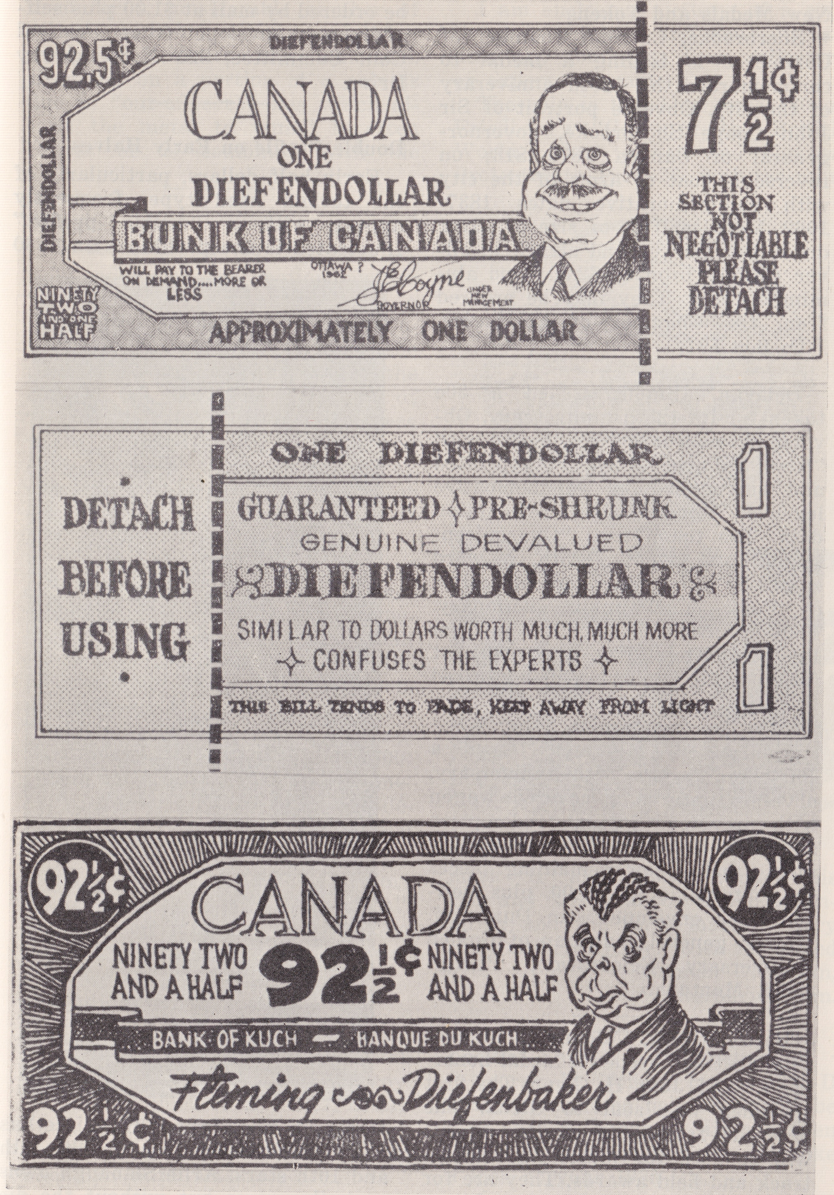 Reproductions of "Diefendollars"